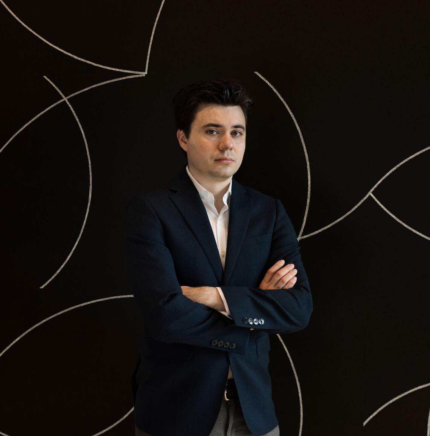 A portrait photograph of Joan Robledo-Palop commissioned from photographer Dannielle Bowman